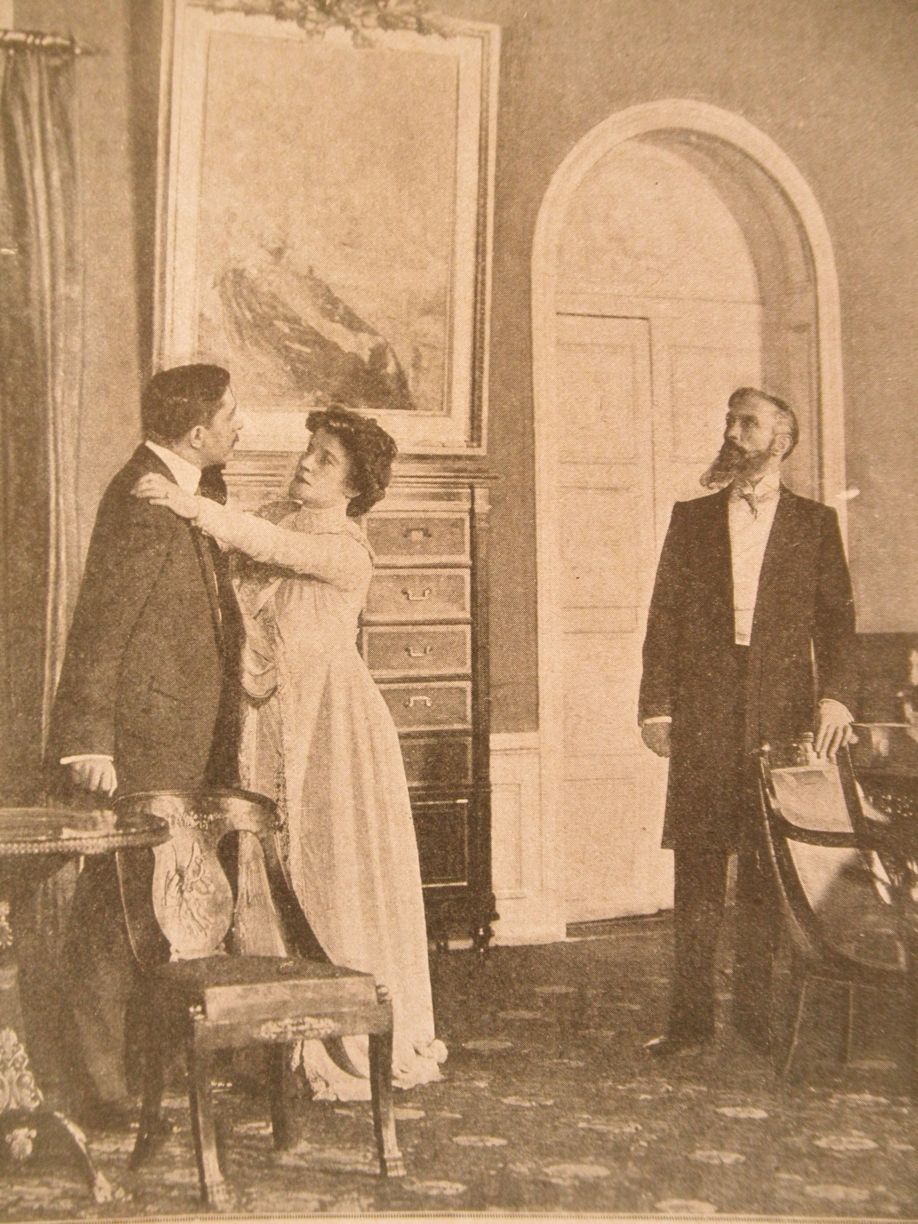 photo pièce theatre le divorce 1904